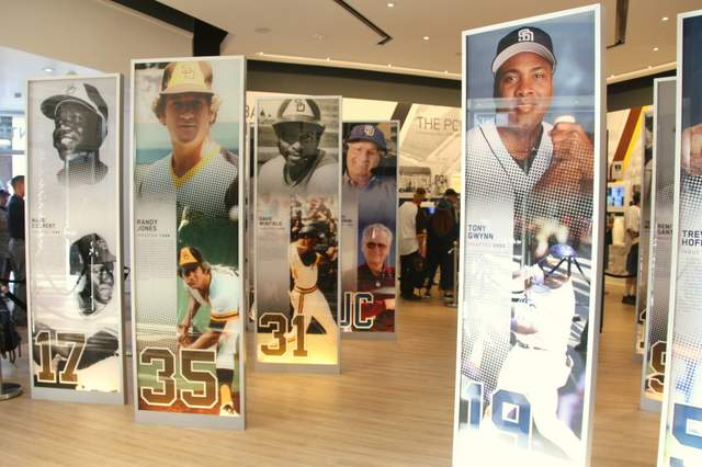 Life-size portrait of inductees in the San Diego Padres Hall of Fame